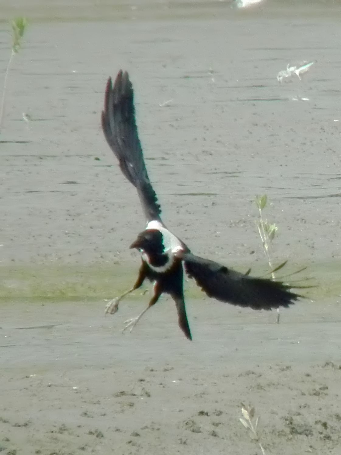 Saw at the river side Got a video as well.